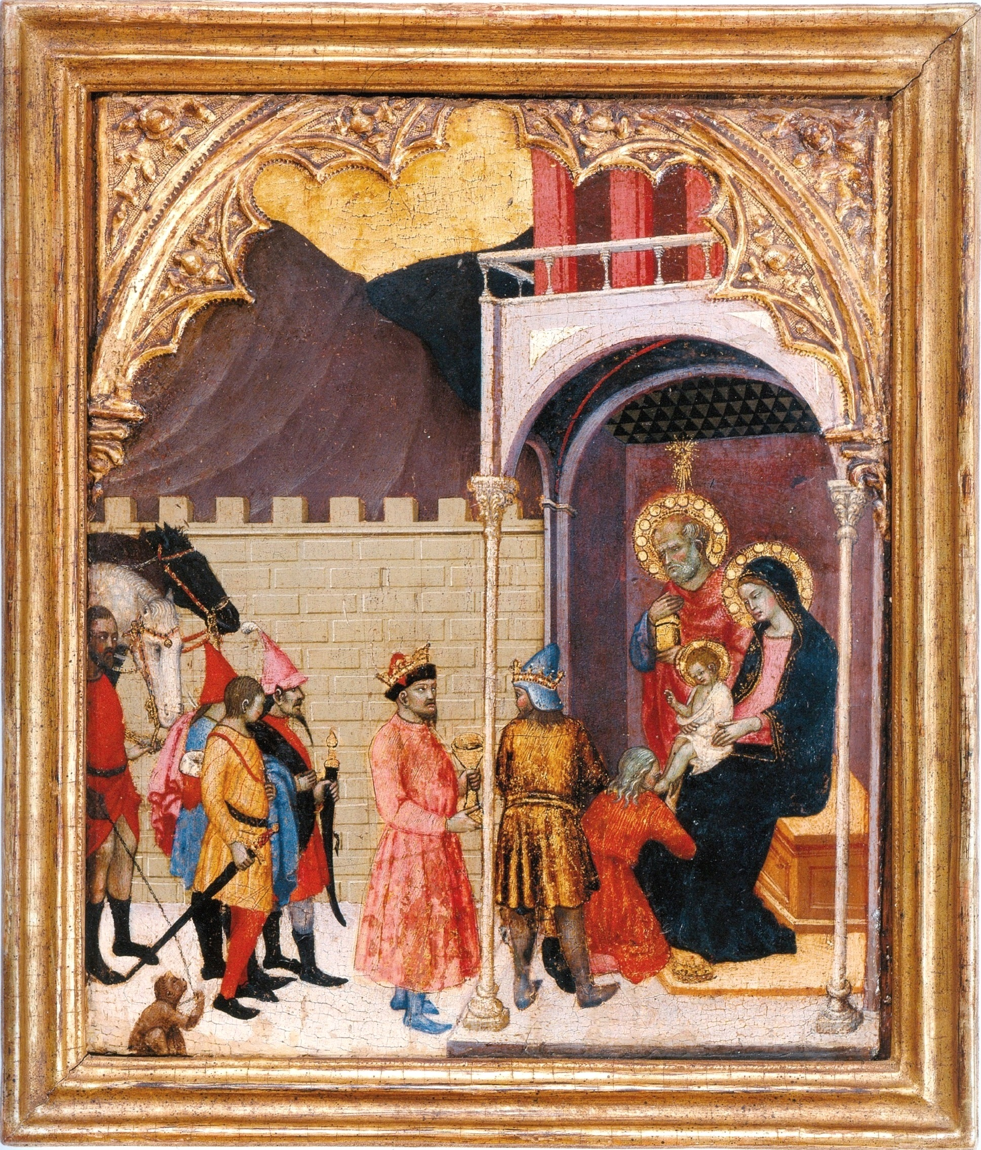 Gregorio di Cecco. Adorazioni dei magi, ca.1420, Svizzera, Coll. privata